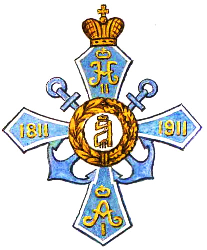 Badge of Sofysky 2-nd Regiment